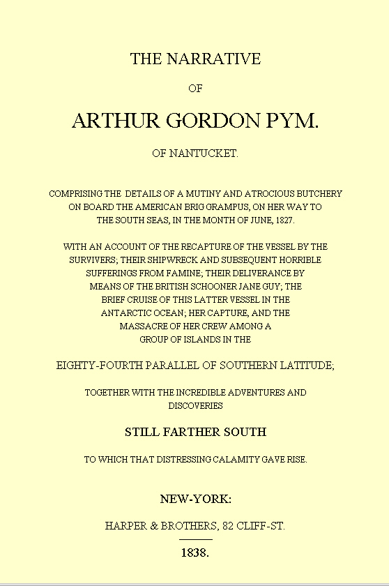 Home-made replica title page for the novel The Narrative Of Arthur Gordon Pym Of Nantucket (Edgar Allan Poe)